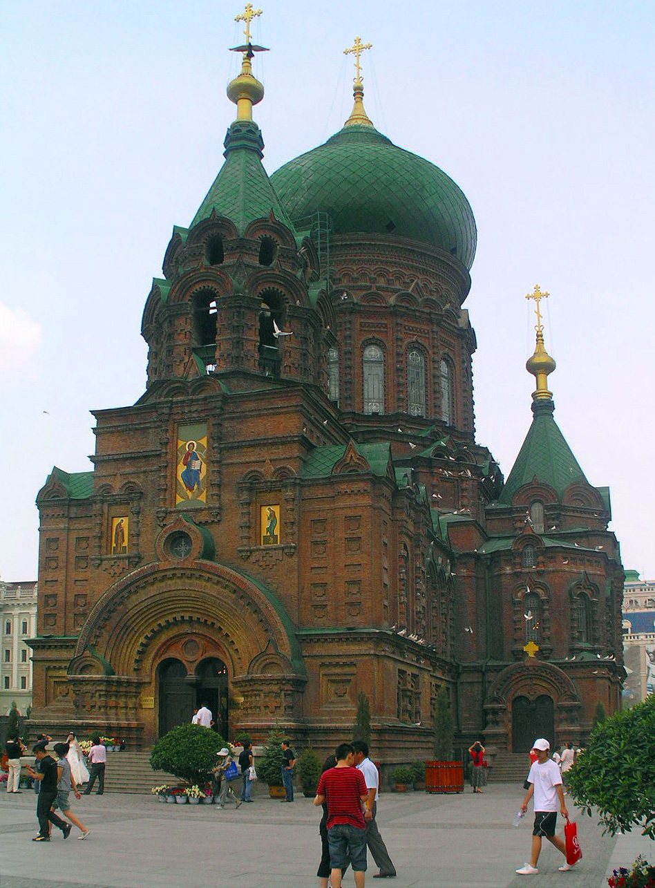 The Cathedral of the Holy Wisdom of God in Harbin